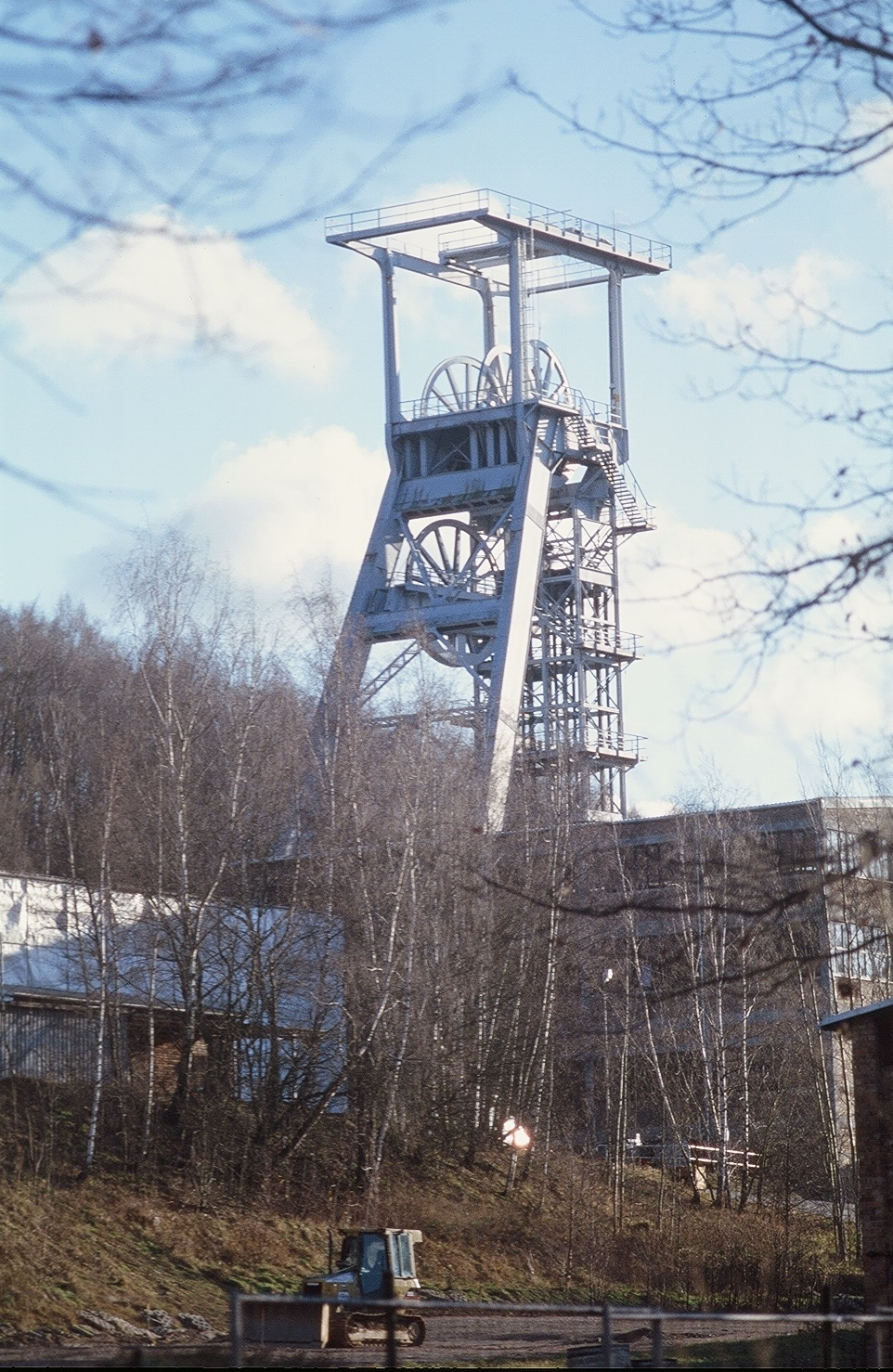 Headframe of Shaft 371 in Hartenstein (Saxony, Germany) of the former SDAG Wismut; The about 1000 m deep shaft was the main shaft on the uranium deposit Niederschlema-Alberoda Schacht 371 Ende des Jahres 2007, ehemaliger Hauptschacht des Bergbaubetriebes Aue